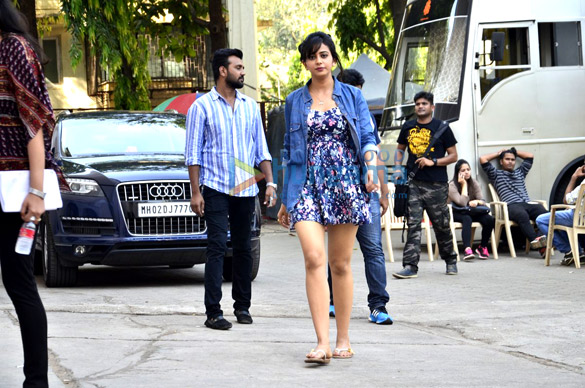 Rakul Preet Singh at Mehboob Studio